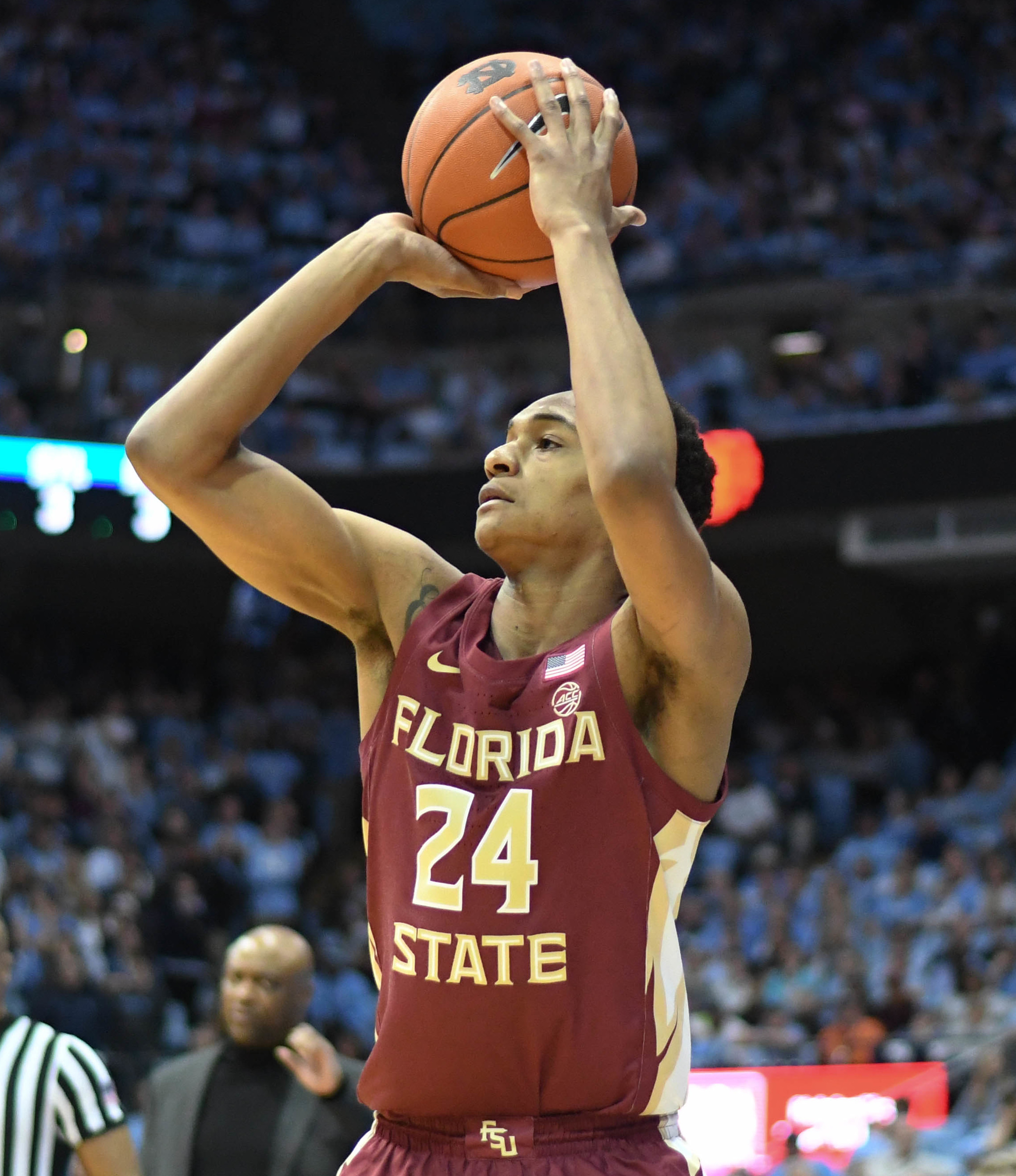 FSU freshman guard Devin Vassell (24) shooting a three pointer in the second half of the FSU game against UNC at the Dean E. Smith Center on February, 23, 2019.